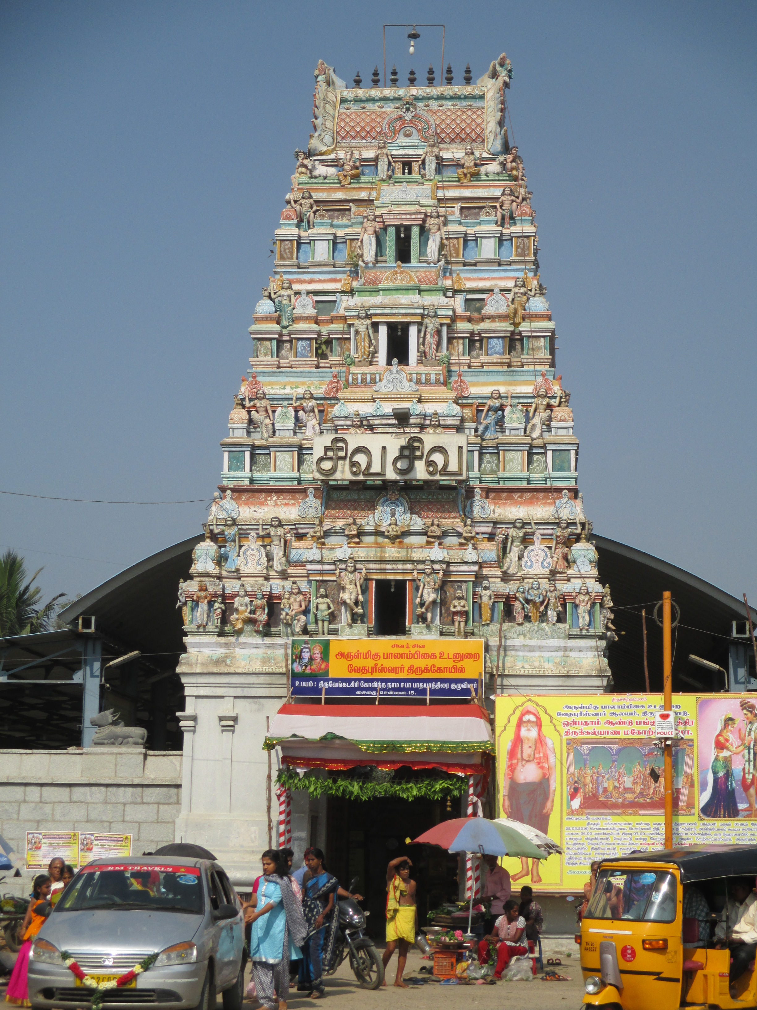 Vedapureeswar temple, Thiruverkadu